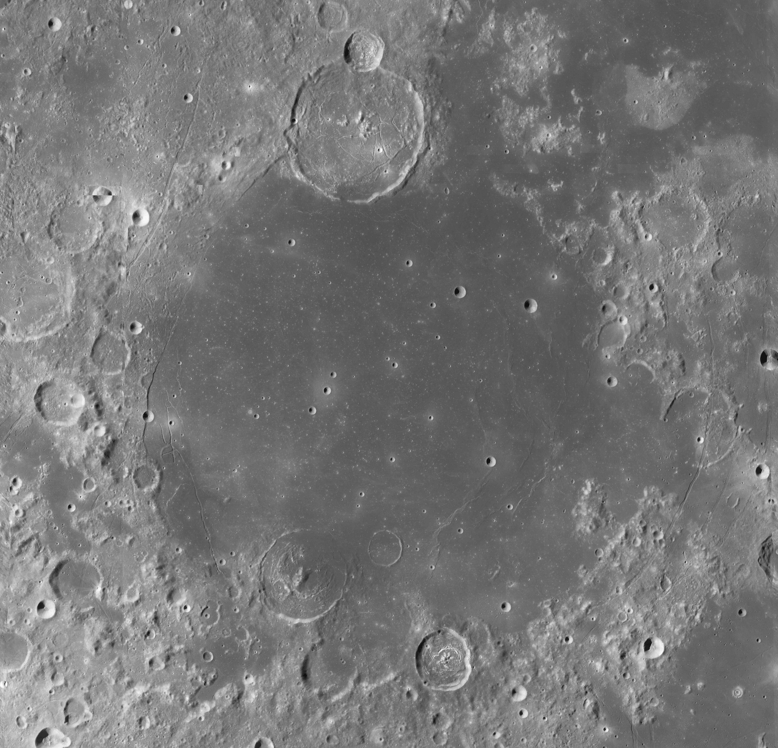 Mare Humorum (detail of LRO - WAC global moon mosaic; Mercator projection)